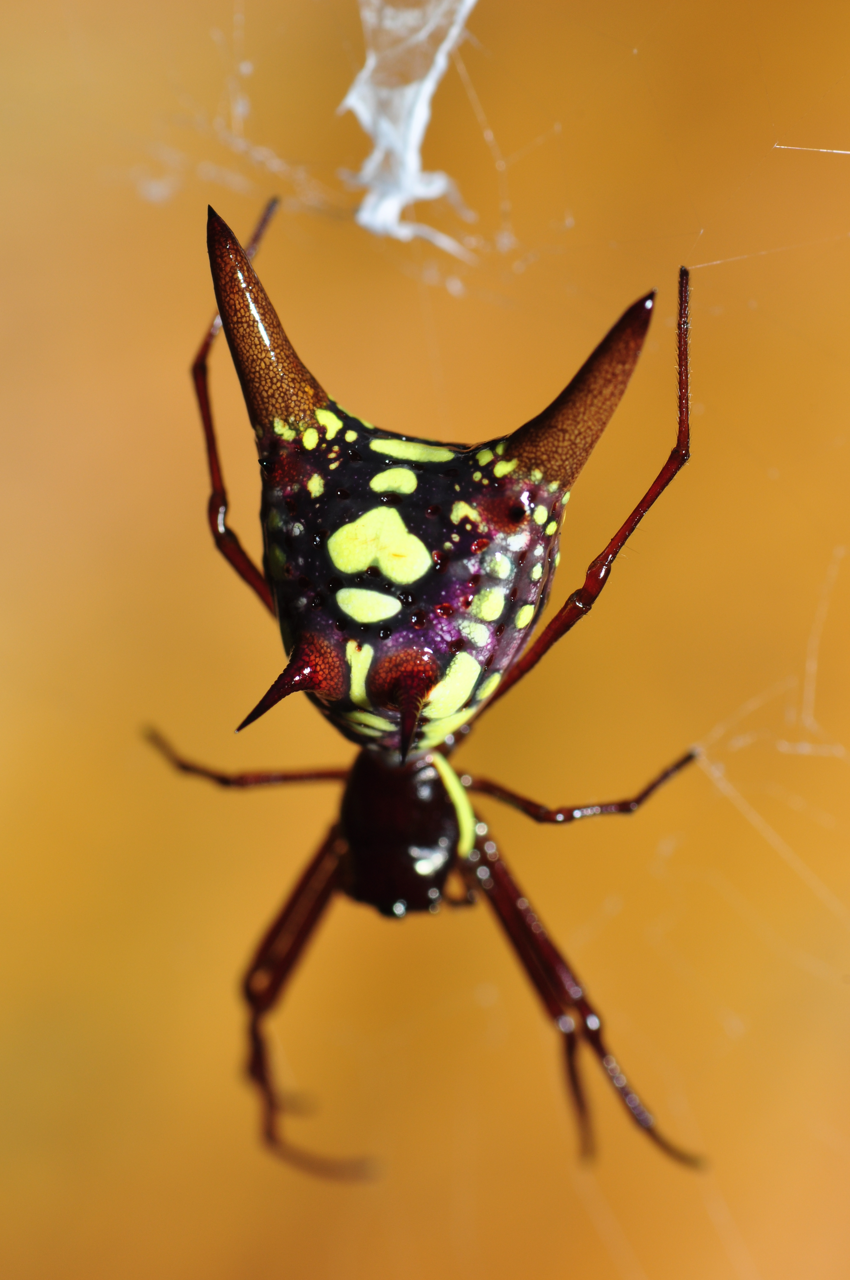 Thanks to ZyllyCandle for ID